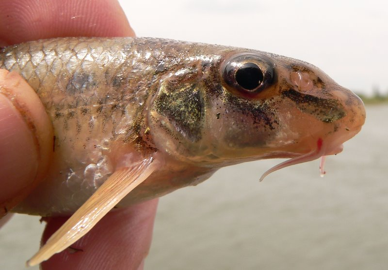 Head of a White finned gudgeon (Romanogobio belingi). River Rhine near Huissen.